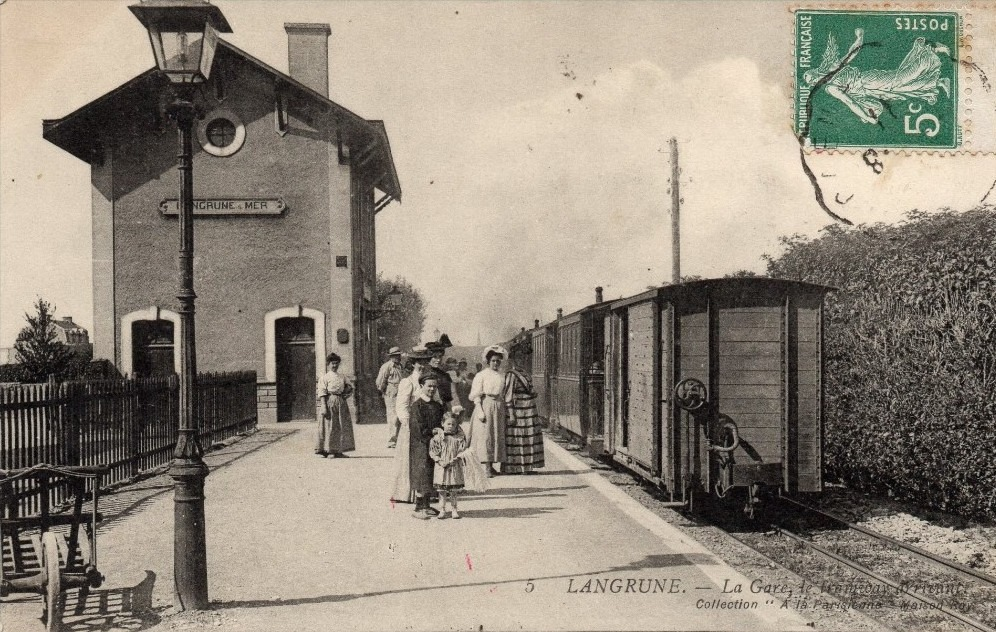 Langrune-sur-Mer station with a narrow gauge train of the Chemins de Fer du Calvados (CFC) on the three-rail section. The narrow-gauge company shared the right-of-way of the Chemin de Fer de Caen à la Mer (CM) between Courseulles and Luc-sur-Mer.